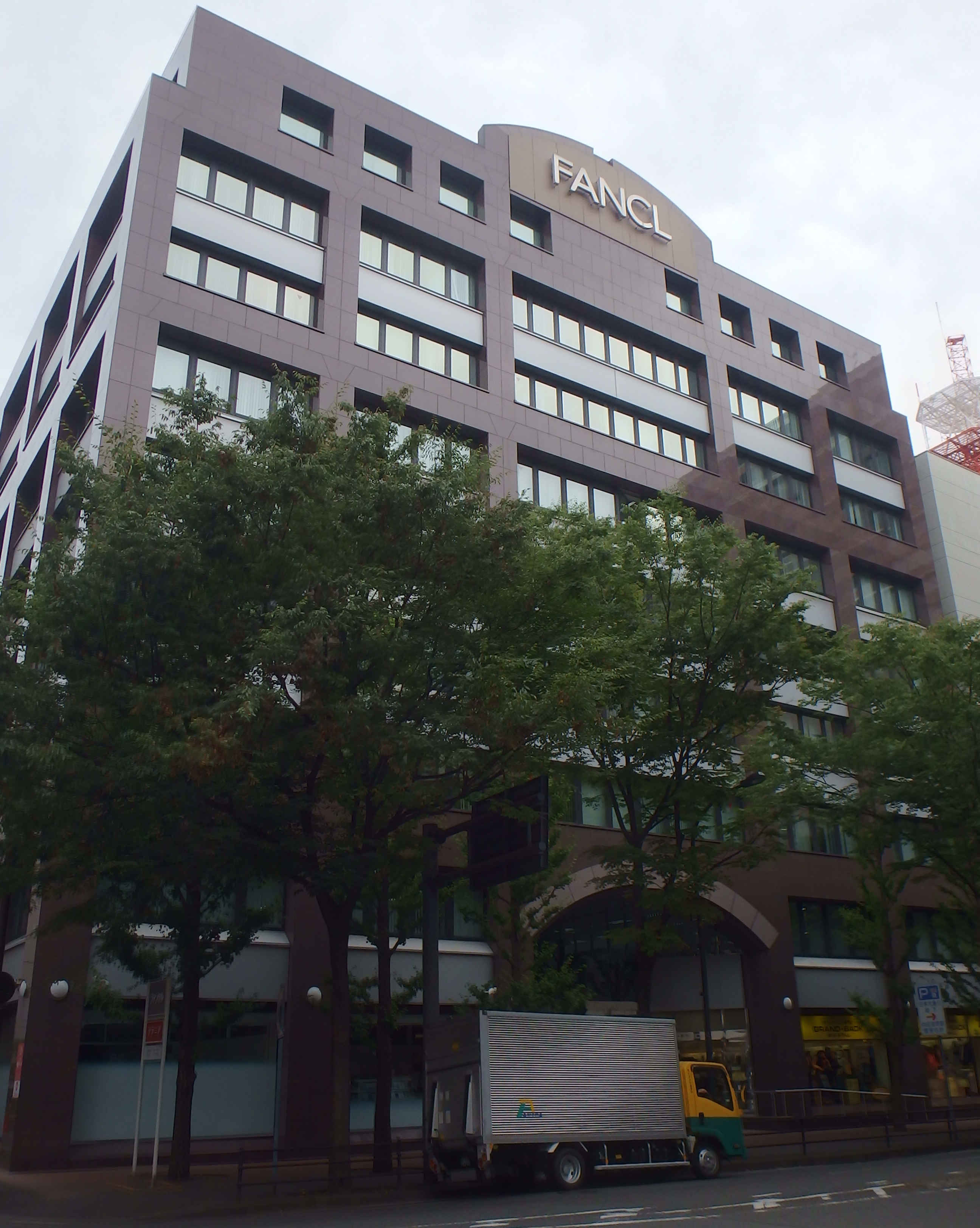 Headquarters of FANCL CORPORATION, Kanagawa prefecture,Japan